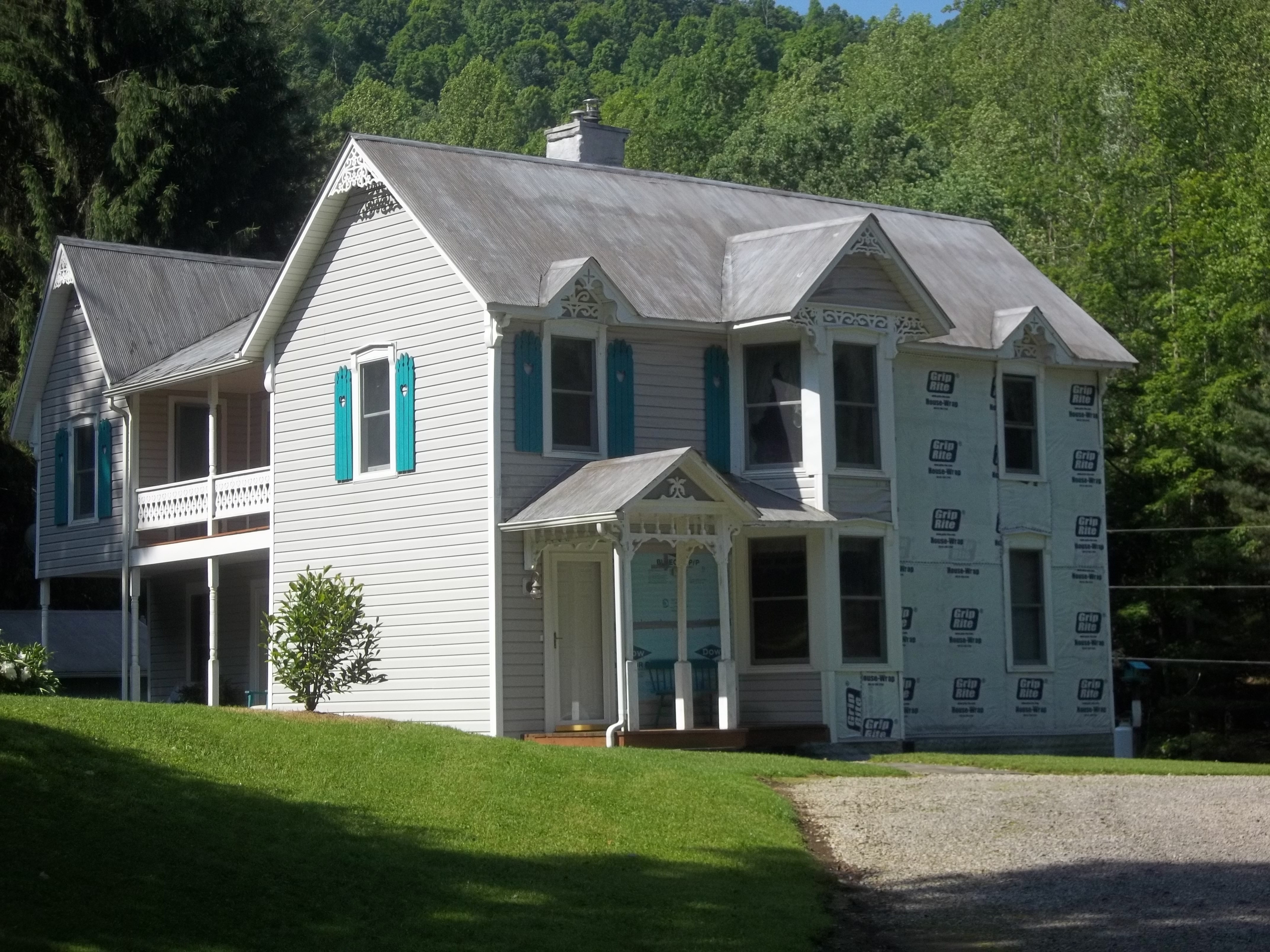 Clossup of the Johnson Home